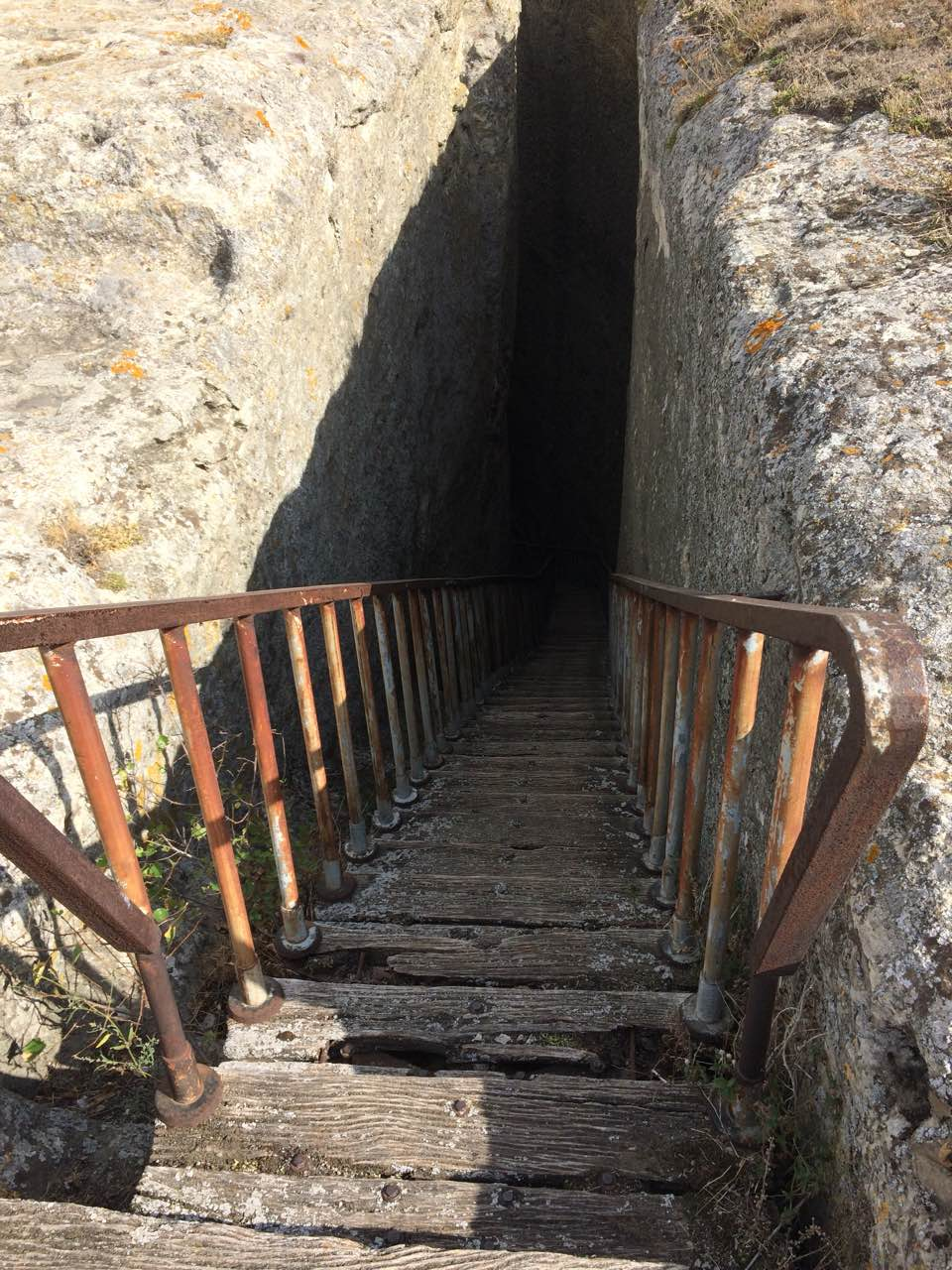 Petrich Kale